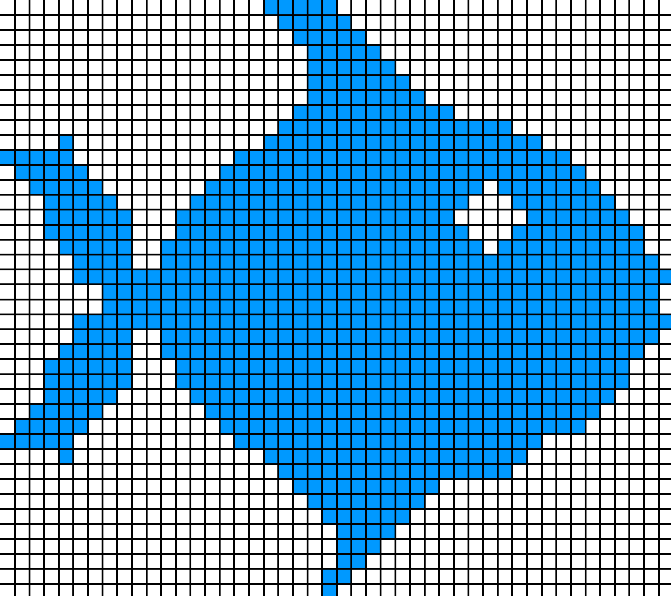 An example for HDTV-resolution using a raster graphic of a fish. Made of 40x46 squares. Created on Benutzer Diskussion:Andreas -horn- Hornig/Bildwerkstatt